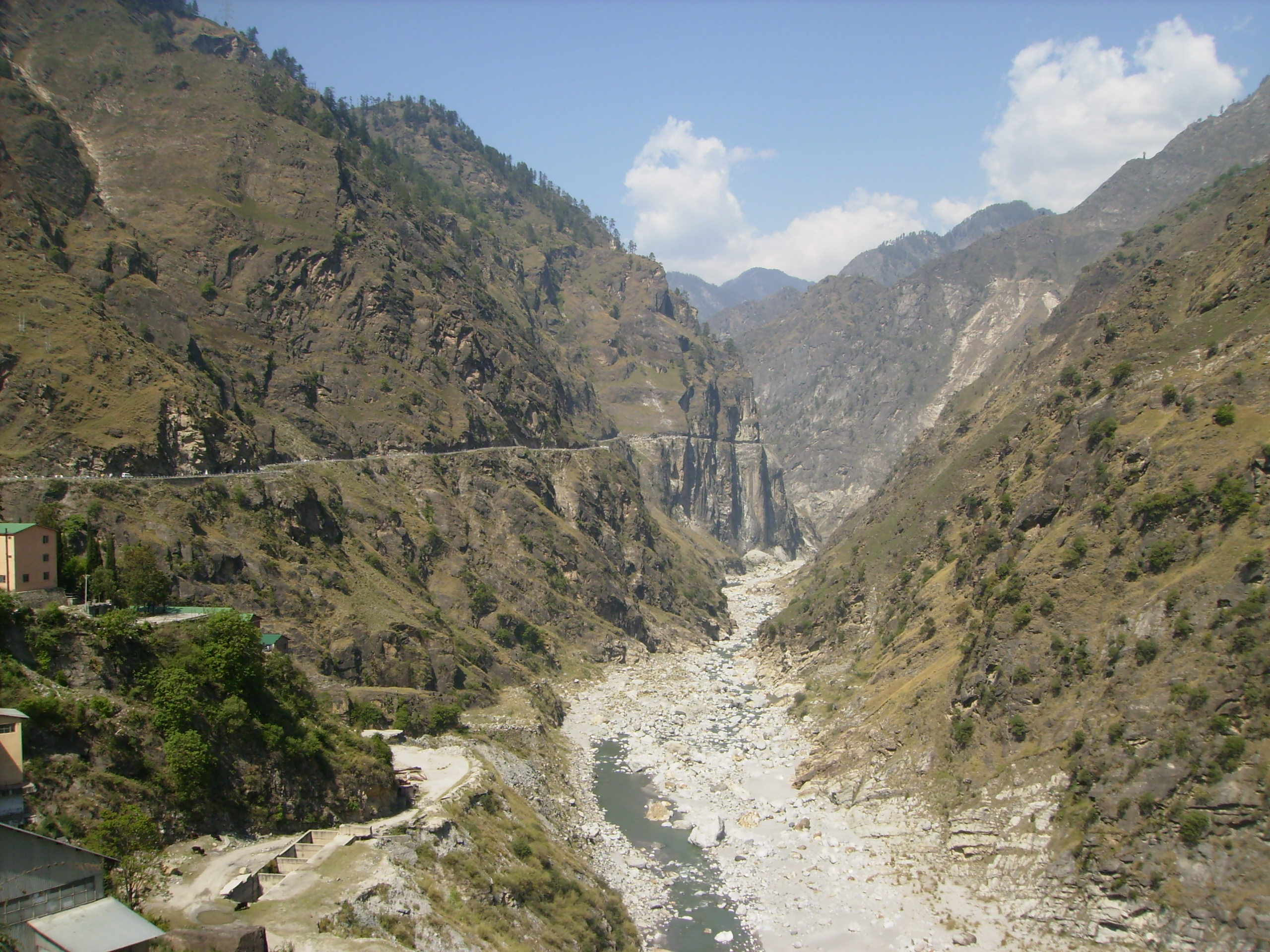 NATIONAL HIGHWAY 22 (NH-22, AMBALA TO KAURIK) ALSO CALLED HINDUSTAN-TIBET ROAD CAN BE SEEN FROM A DISTANCE AS A FINE LINE CUTTING ACROSS THE HIMALAYAN MOUNTAINS ON THE LEFT SIDE OF AND ALONG RIVER SATLUJ. PICTURE TAKEN AT KINNAUR DISTRICT, HIMACHAL PRADESH, INDIA.